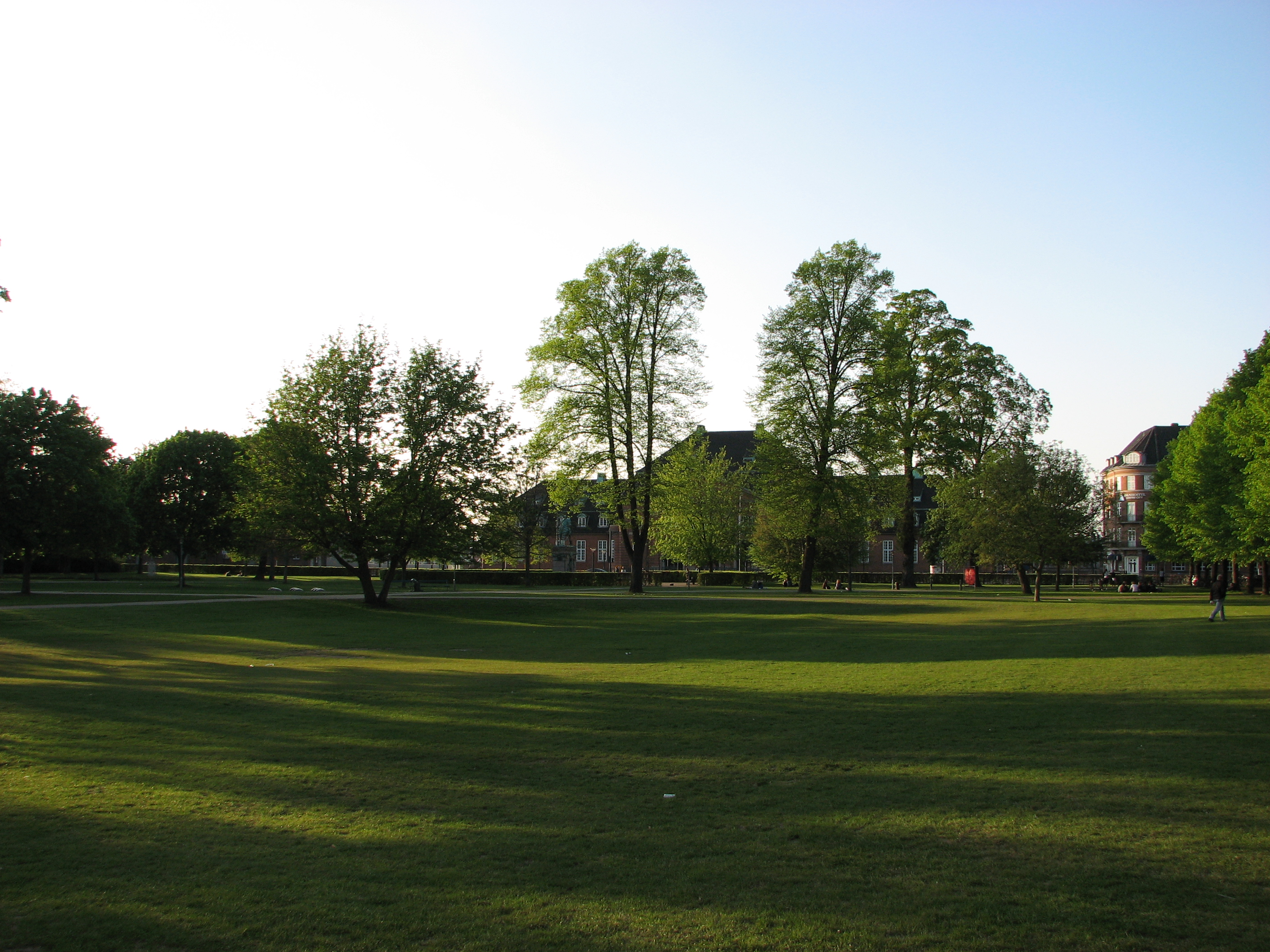 Kongens Have is a centrally located park in Odense, Denmark, situated across from the main railroad station (the building in the background is the old main railroad station).